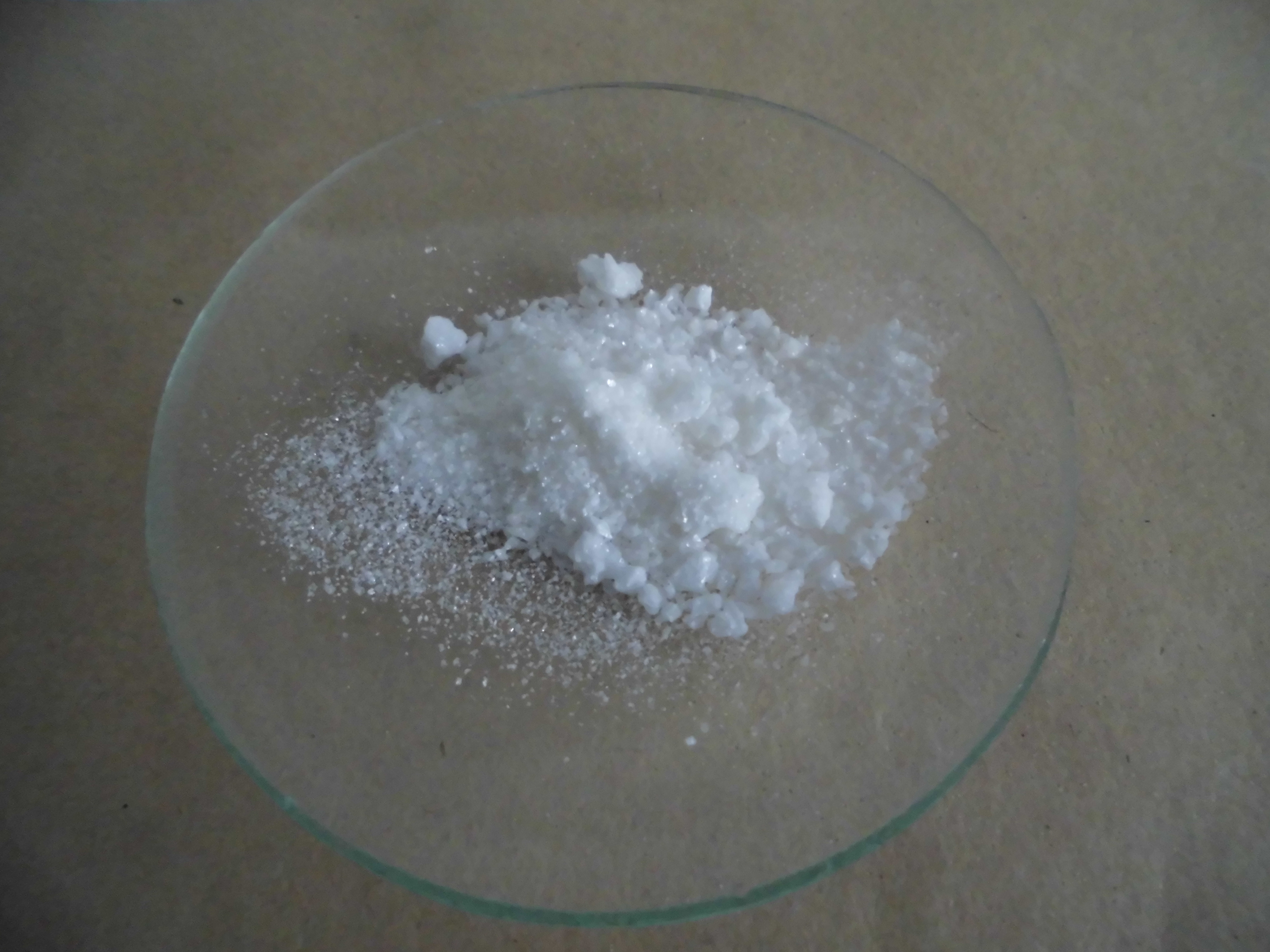 Sample of phenanthrene.